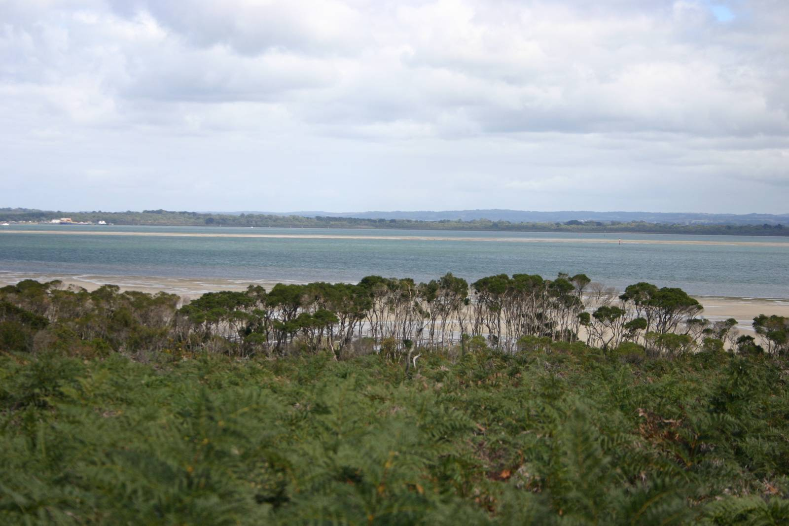 Western Port, Victoria looking west from French Island, March 2005. Photo by Takver ( and released under the GNU FDL